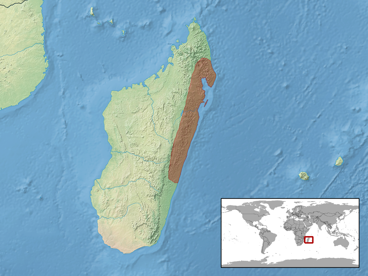 geographic distribution of Phelsuma pusilla (Native: Madagascar)